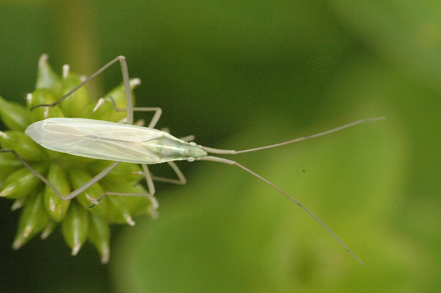 Picture taken in Commanster, Belgian High Ardennes . Species: Notostira elongata